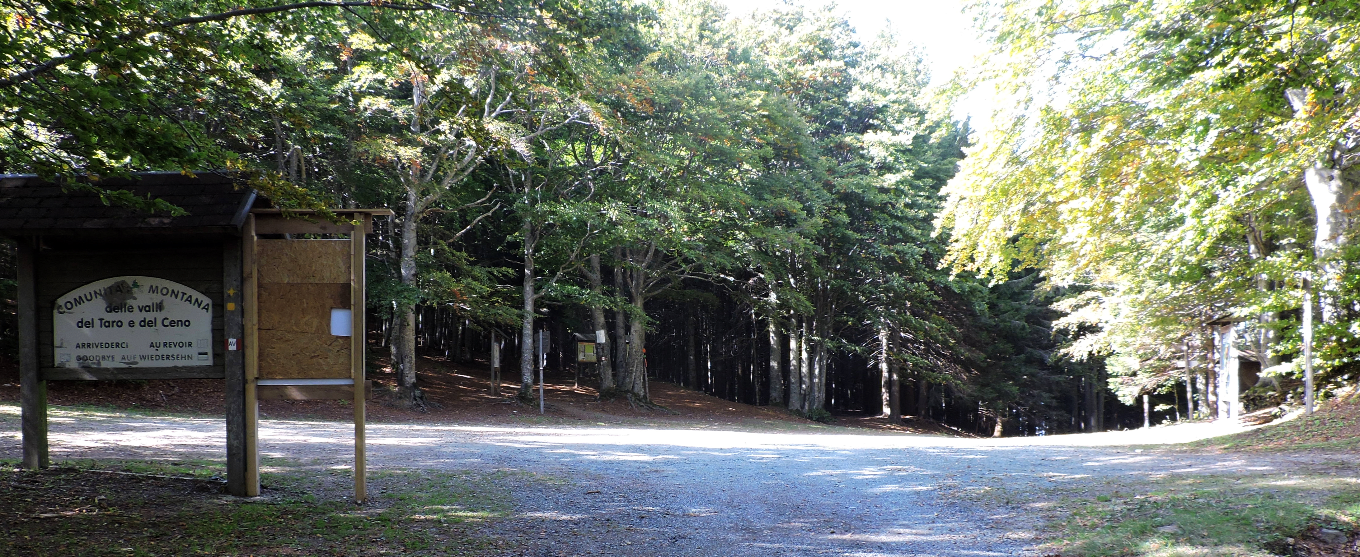 Passo dell'Incisa (GE/PR, Ligurian Apennine, Italy)